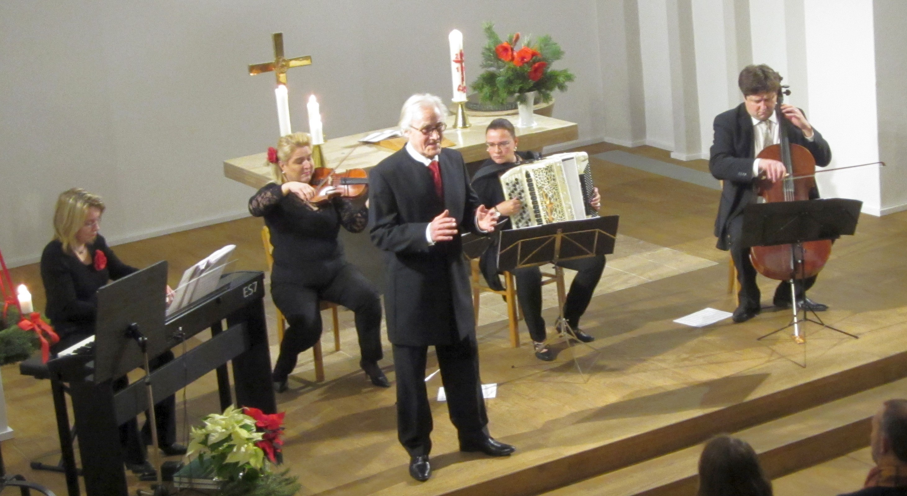 from left: Maija Teikari, Susanna Mieskonen-Makkonen, Esa Ruuttunen, Kirsi Laamanen and Matti Makkonen at the Weinbergskirche Dresden-Trachau, Dresden, Germany (Programm: Finnish christmas with Sibelius and Tango)